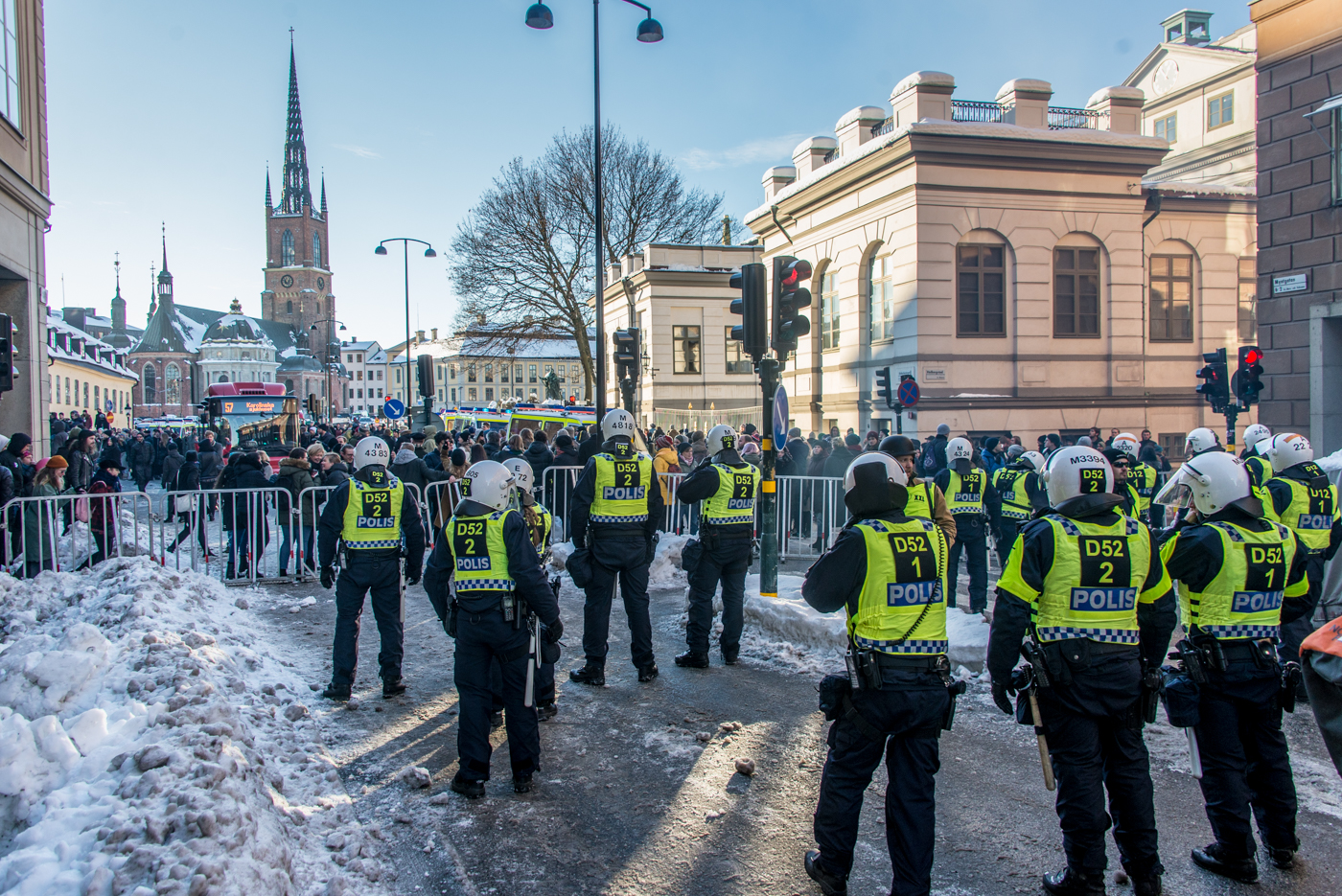 NMR, Nordic Resistance Movement, in a rally in central Stockholm on December 12, 2016. Mynttorget, Old city.